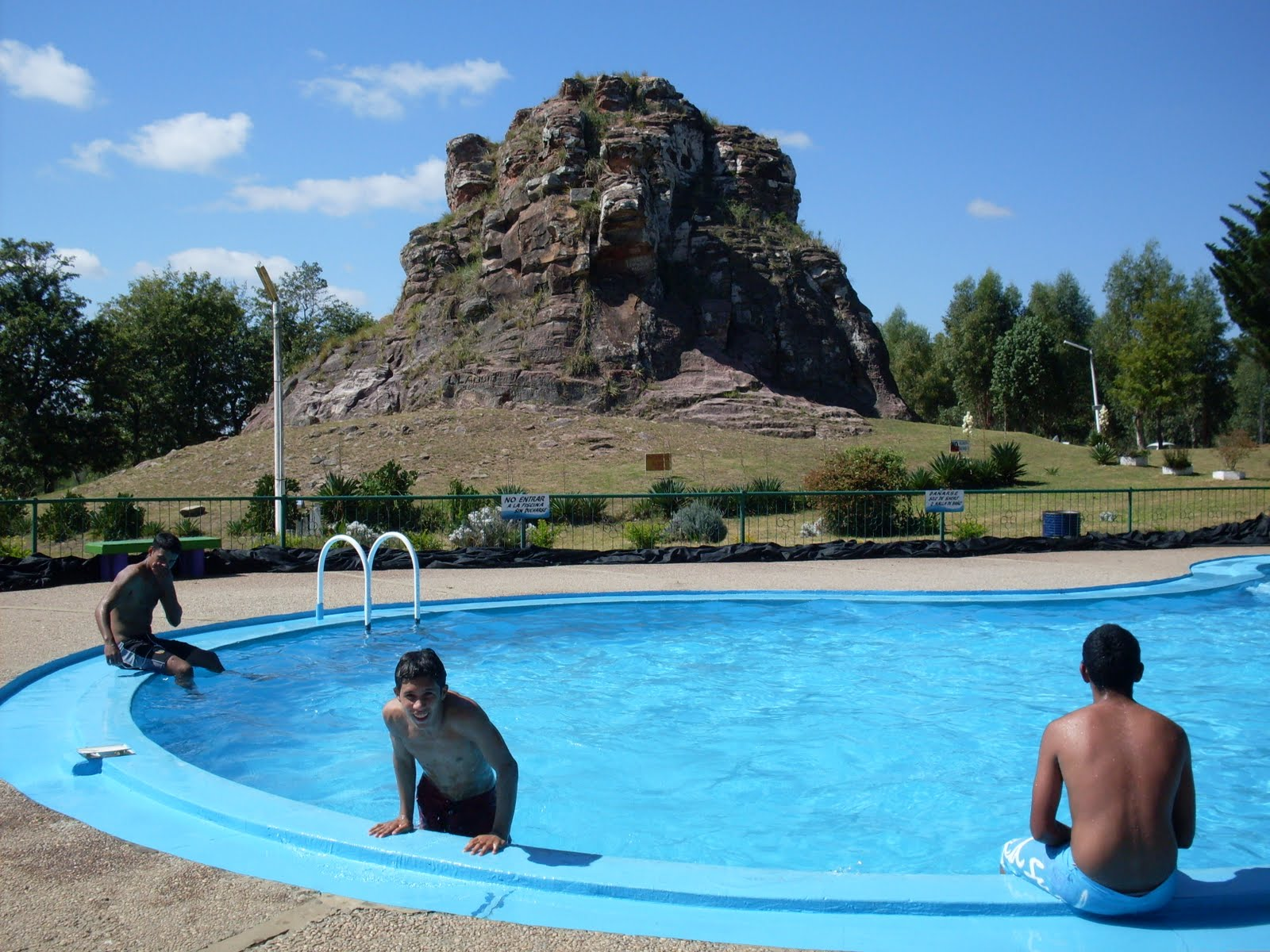 Piedra pintada 2010